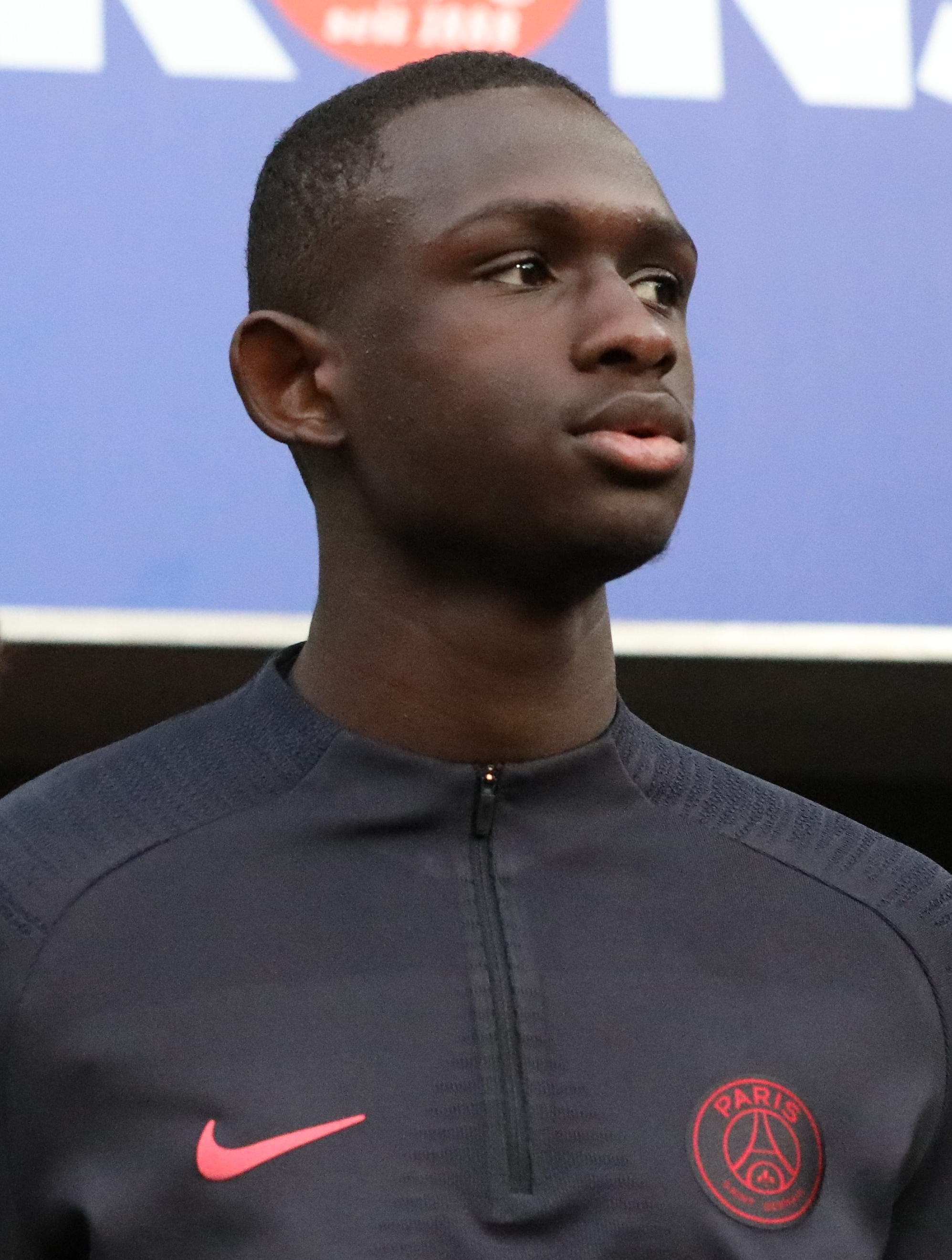 Test game, 17th July 2019: SG Dynamo Dresden vs. Paris Saint-Germain 1:6 (0:3)